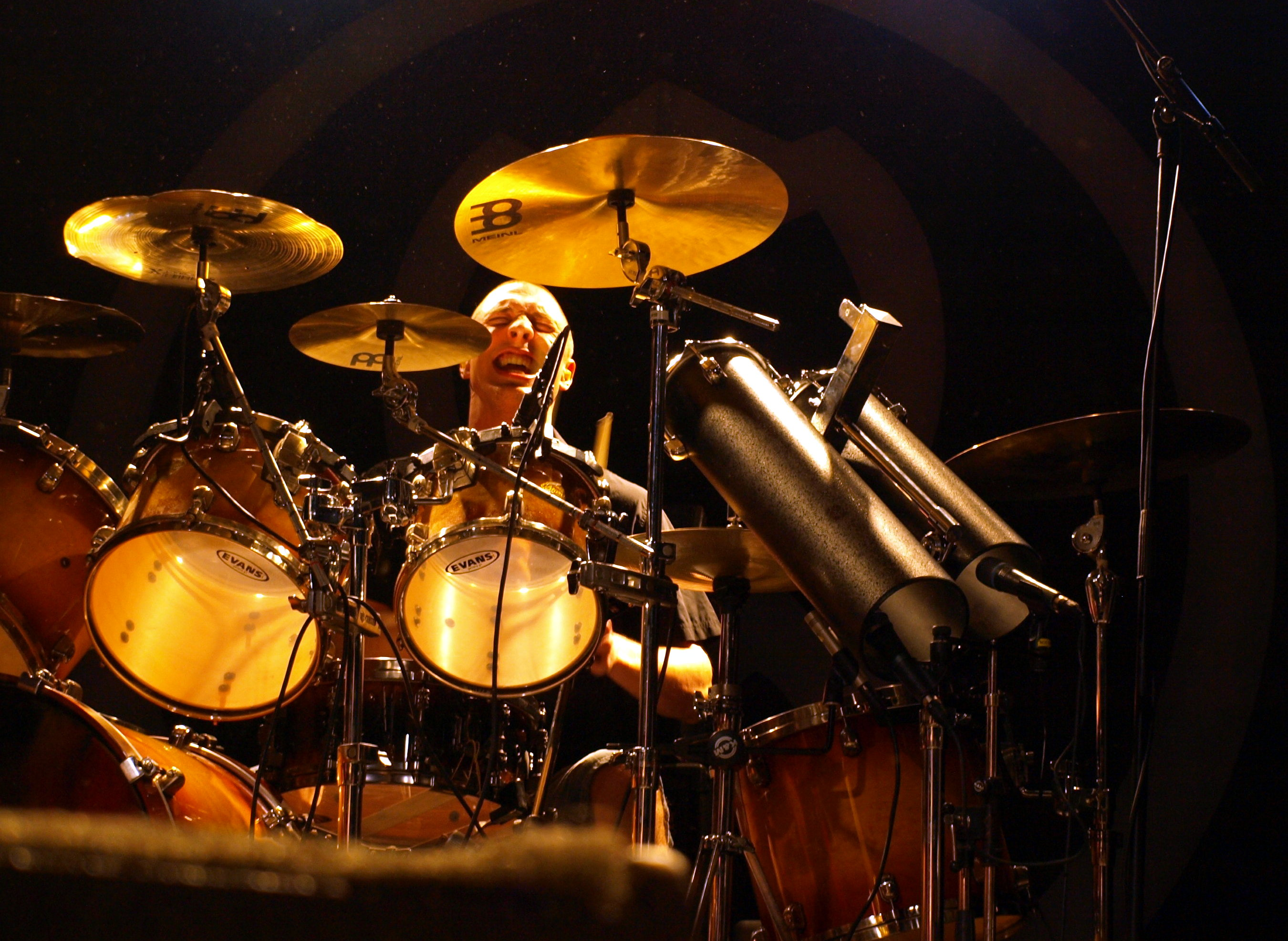 Finnish thrash metal band Stam1na live at Nosturi, Helsinki